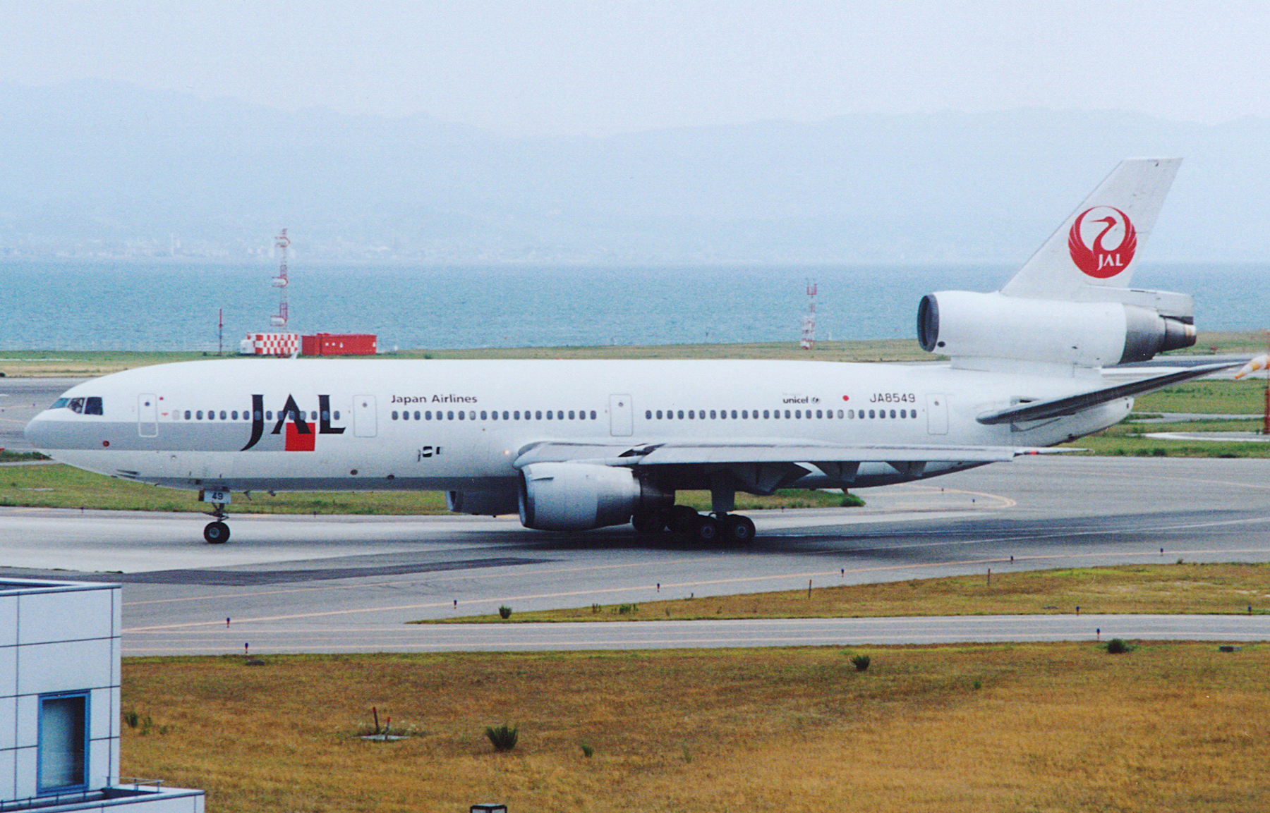 Japan Air Line DC-10-40.Taken by Los688 in Kansai International Airport,28-July-2001.PD-self.